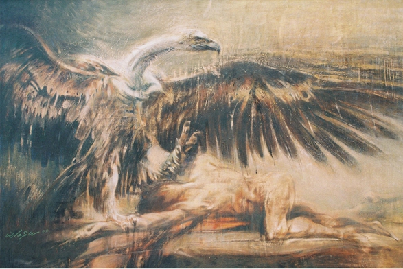 1 Painting El Buitre (Vulture) by Antonio García Vega[1]